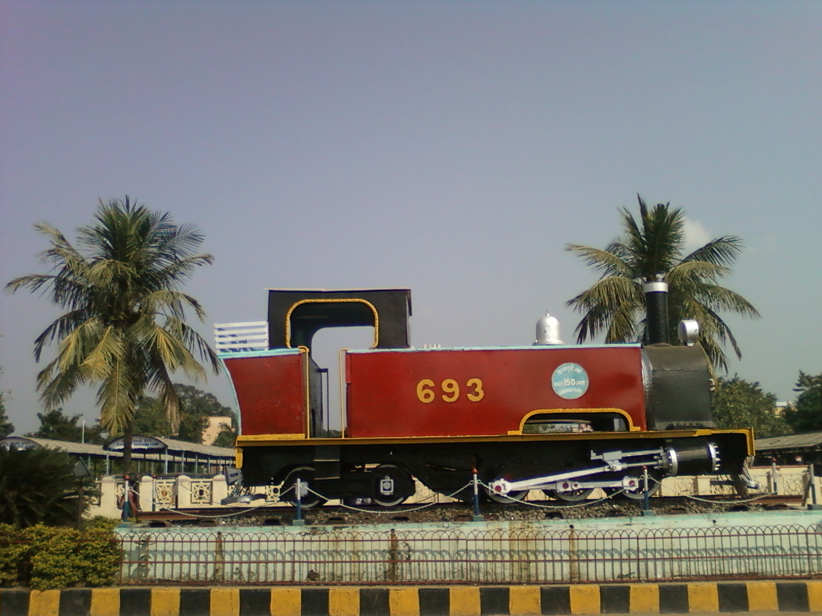 Replica of a rail engine at Vizianagaram railway station, Andhra Pradesh